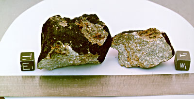 Graves Nunataks 98033, a brecciated eucrite about 5 cm across, found in the Graves Nunataks region of Antarctica. Image from Astromaterials Curation at NASA JSC